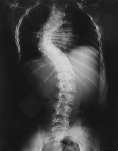 Preoperative standing posteroanterior radiograph showing left dystrophic scoliosis measuring 75 degrees from T4 to the T10.